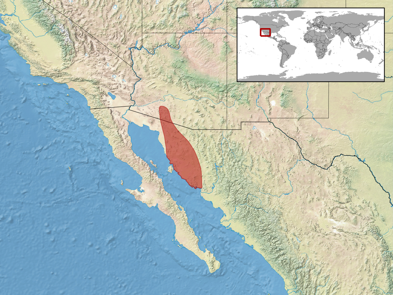 geographic distribution of Chionactis palarostris (Native: Mexico; United States)